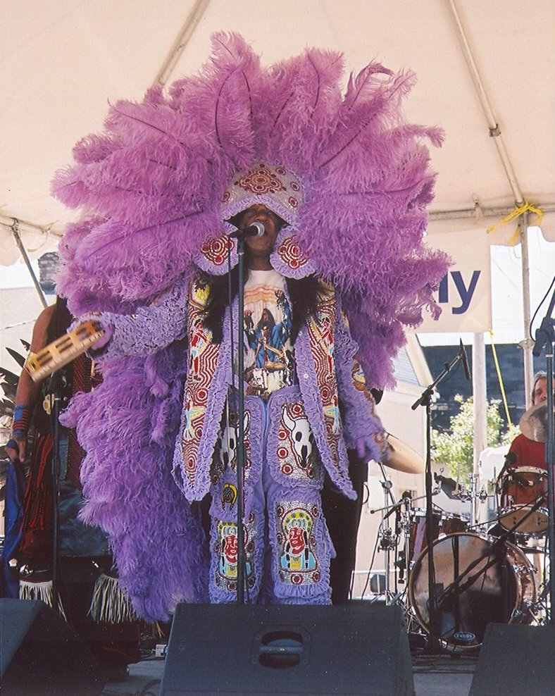 Big Chief Monk Boudreaux in full Mardi Gras Indian regalia, Freret Street Festival, 2 April, 2005, New Orleans Photo by Infrogmation